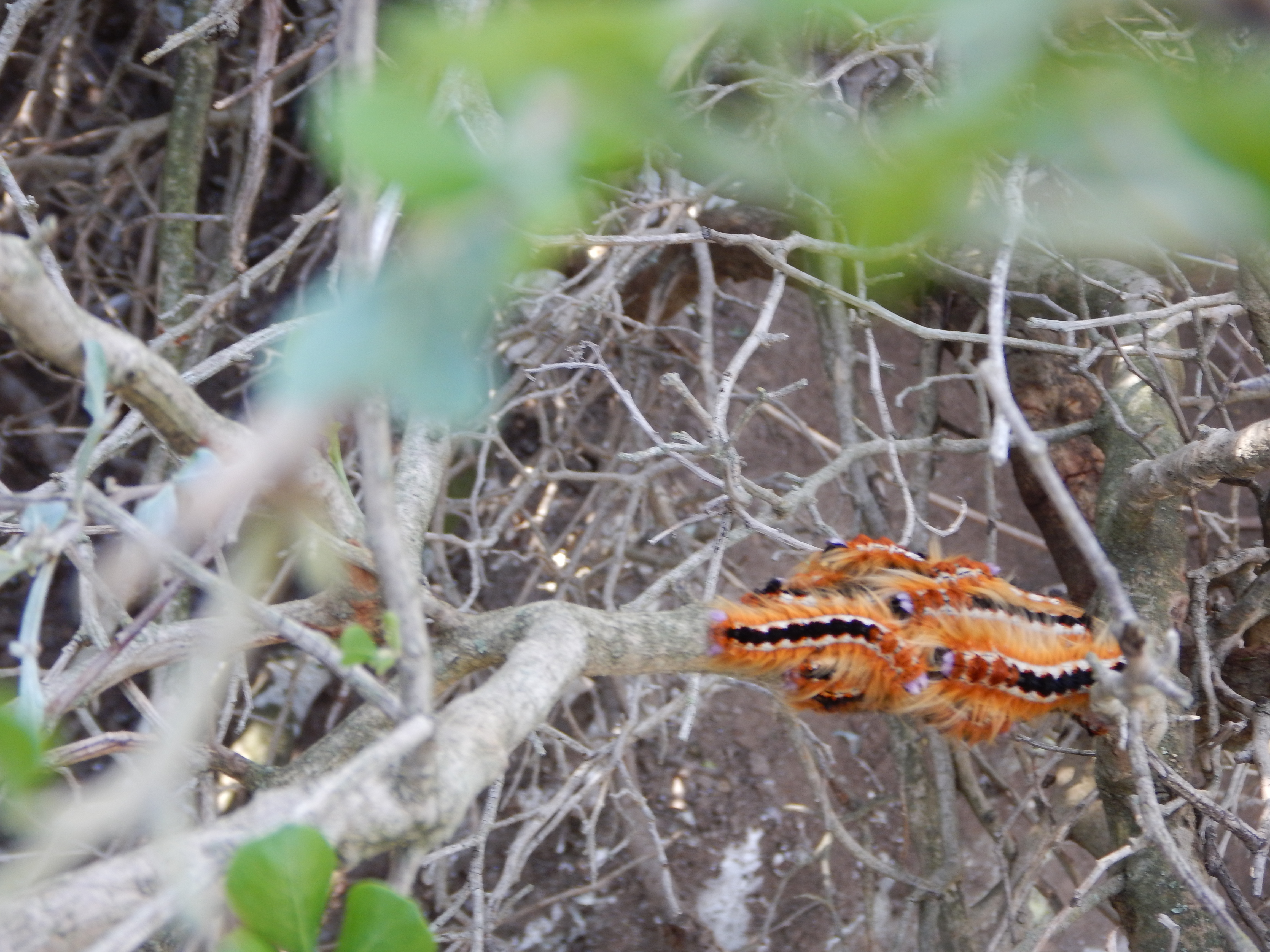 Caterpillars in South Africa